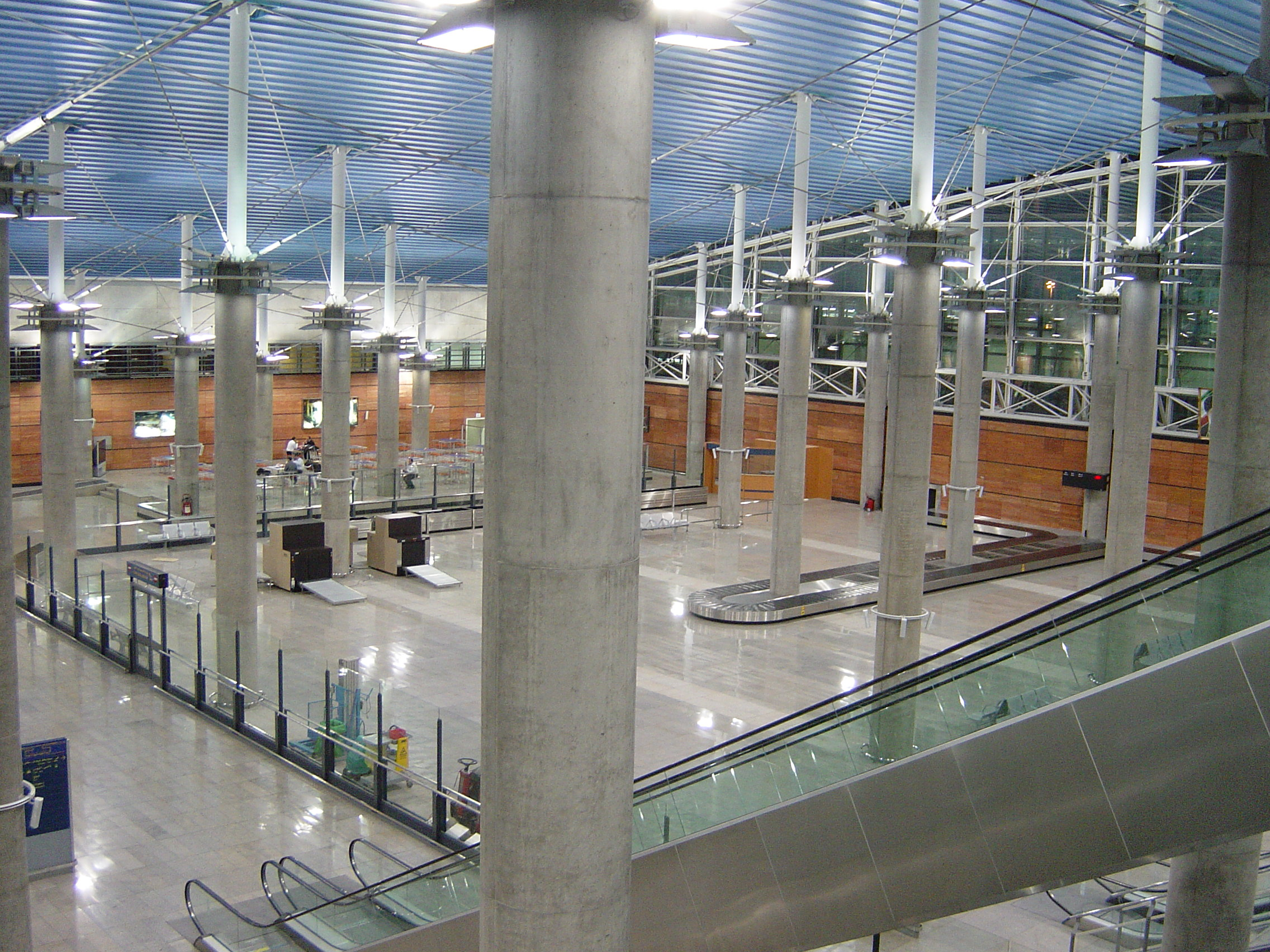 IKIA-Tehran (Imam Khomeini International Airport)